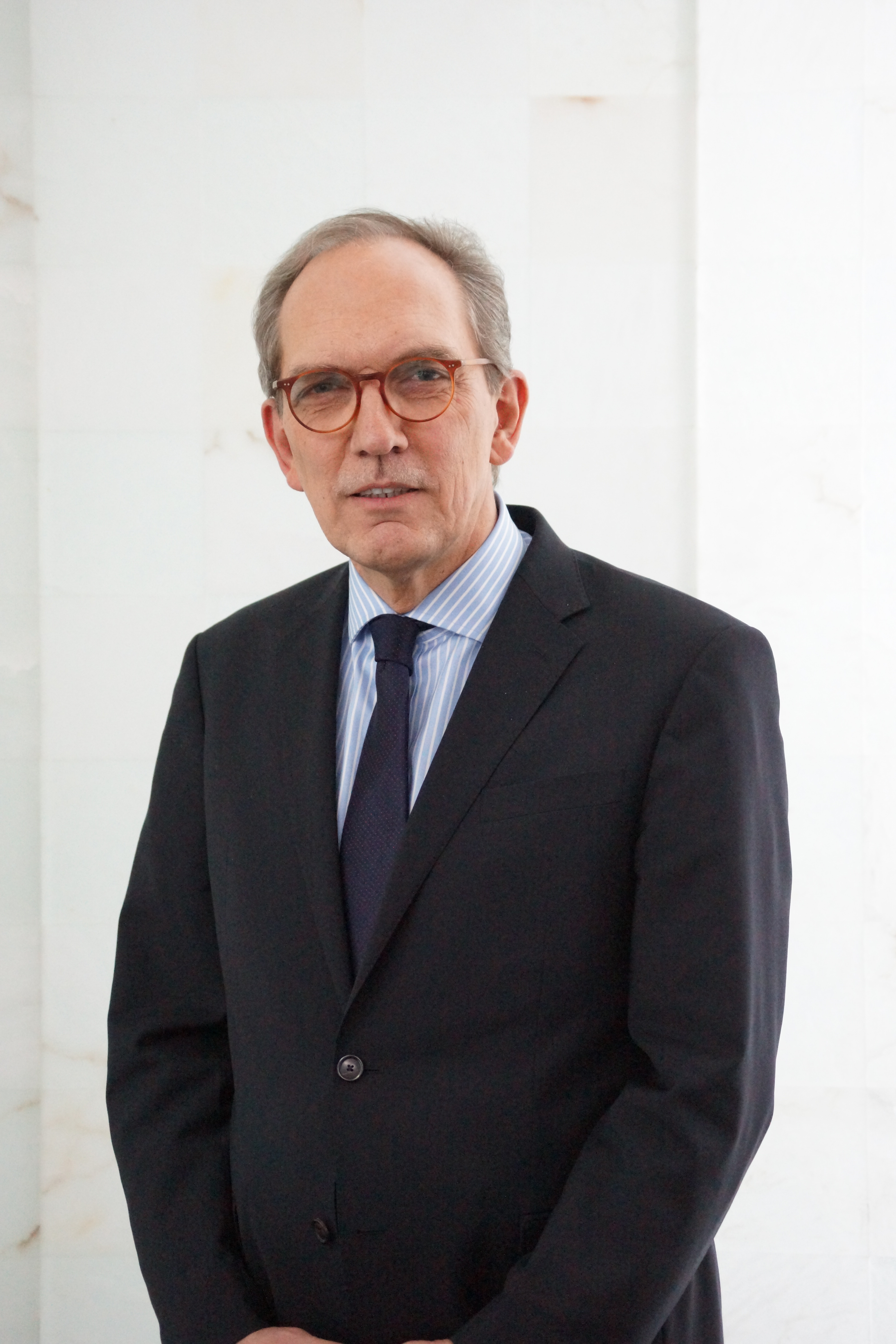 Portrait of Dr. Michael Schlagheck